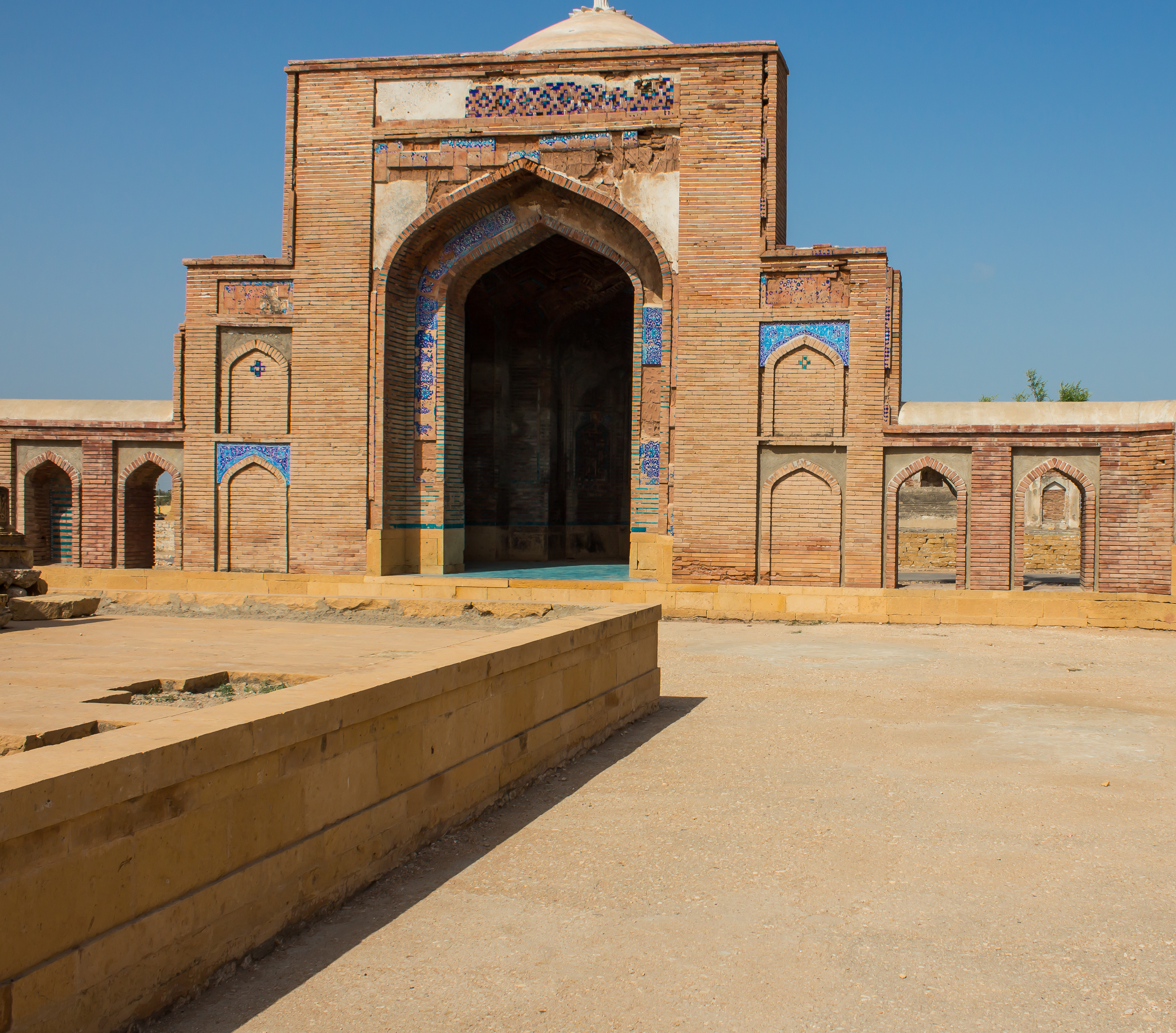 Brick enclosure of Mirza Baqi Baig Uzbak's tomb, south of the tomb of Nawab Isa Khan the Younger This is a photo of a monument in Pakistan identified as the SD-98